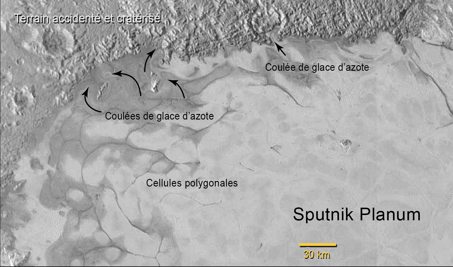 Annotated image of the northwestern region of Pluto’s Sputnik Planum, swirl-shaped patterns of light and dark suggest that a surface layer of exotic ices has flowed around obstacles and into depressions, much like glaciers on Earth. (french legend)